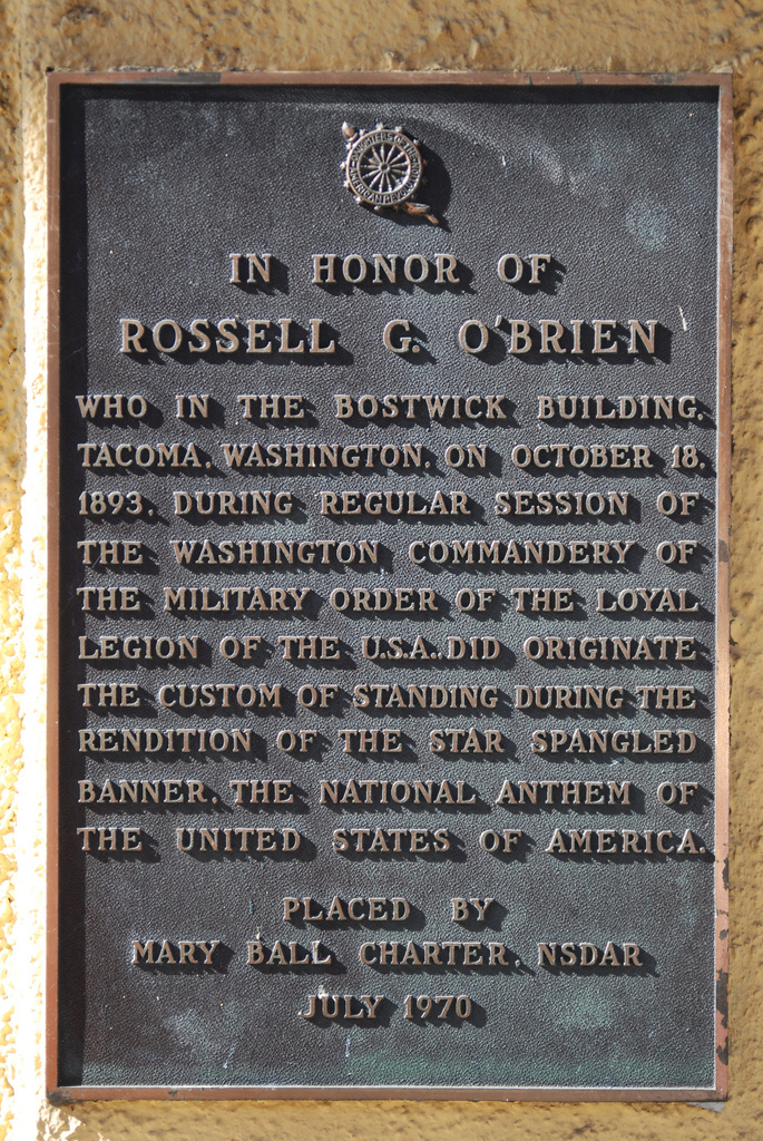 Plaque detailing how the custom of standing during the SSB,originated in the Bostwick Building in Tacoma, WA October 18, 1893 during a session of the Washington Commandery of the Military Order of the Loyal Legion of the U.S.A.